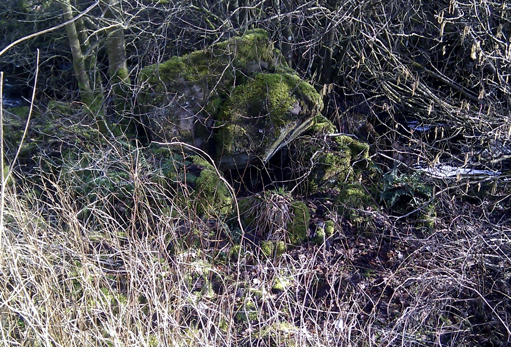 The Lamargle or Lugar Rocking Stone beside the Bello or Bellow Water, Lugar, East Ayrshire, Scotland